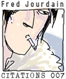 Citations de Fred Jourdain